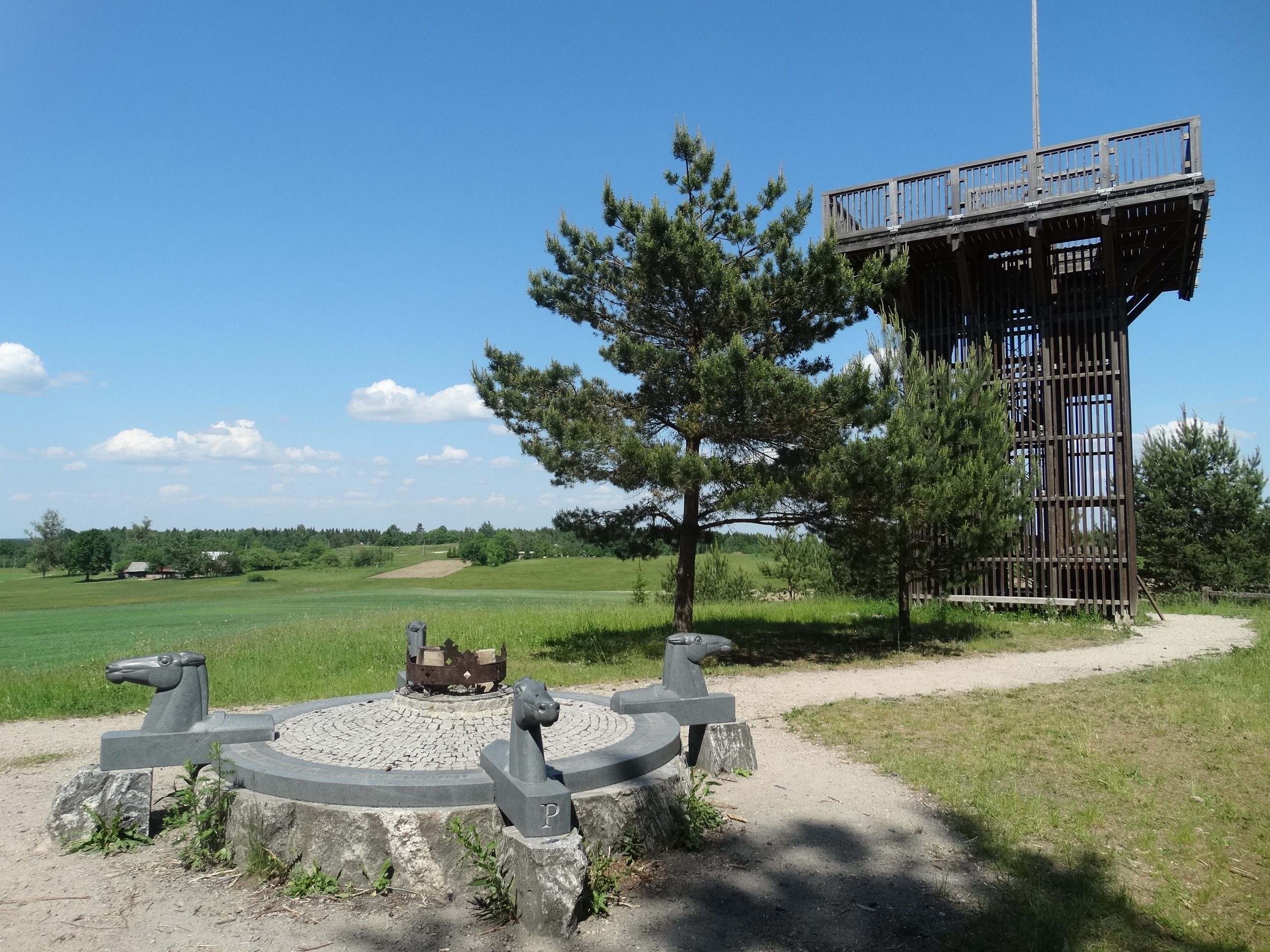 On the Aukštojas Hill, Juozapinė, Vilnius District, Lithuania